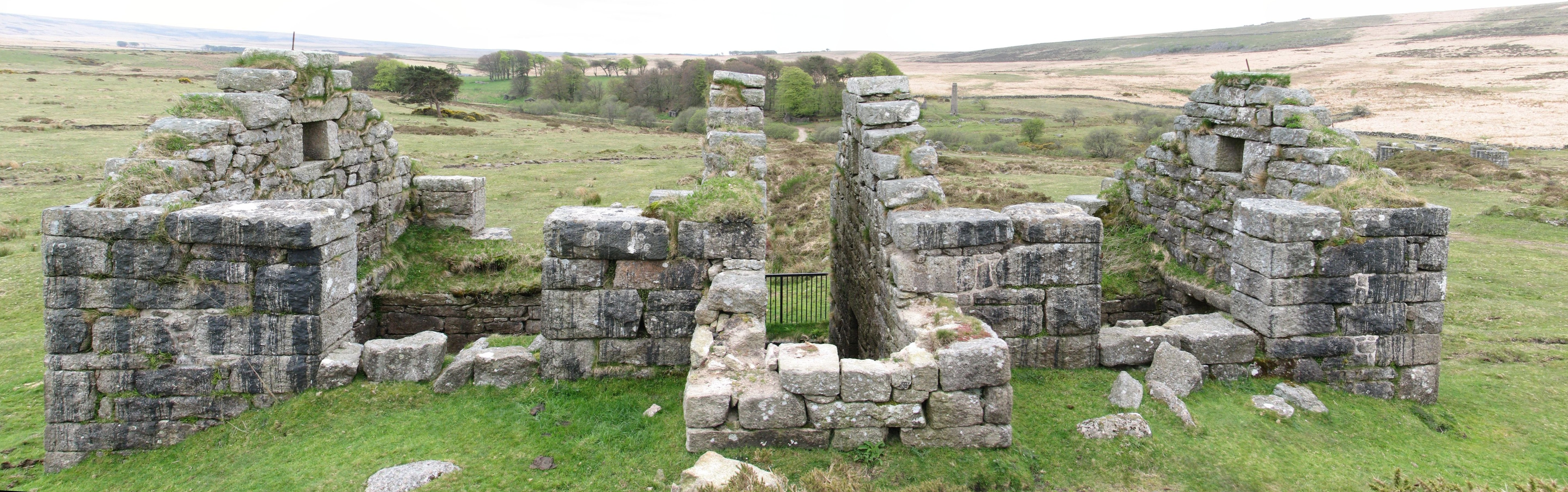 The ruins of one of the incorporating mills at "Powder Mills", a 19th century gunpowder factory on Dartmoor, Devon, England. Some of the other buildings on the site can be seen in the background.